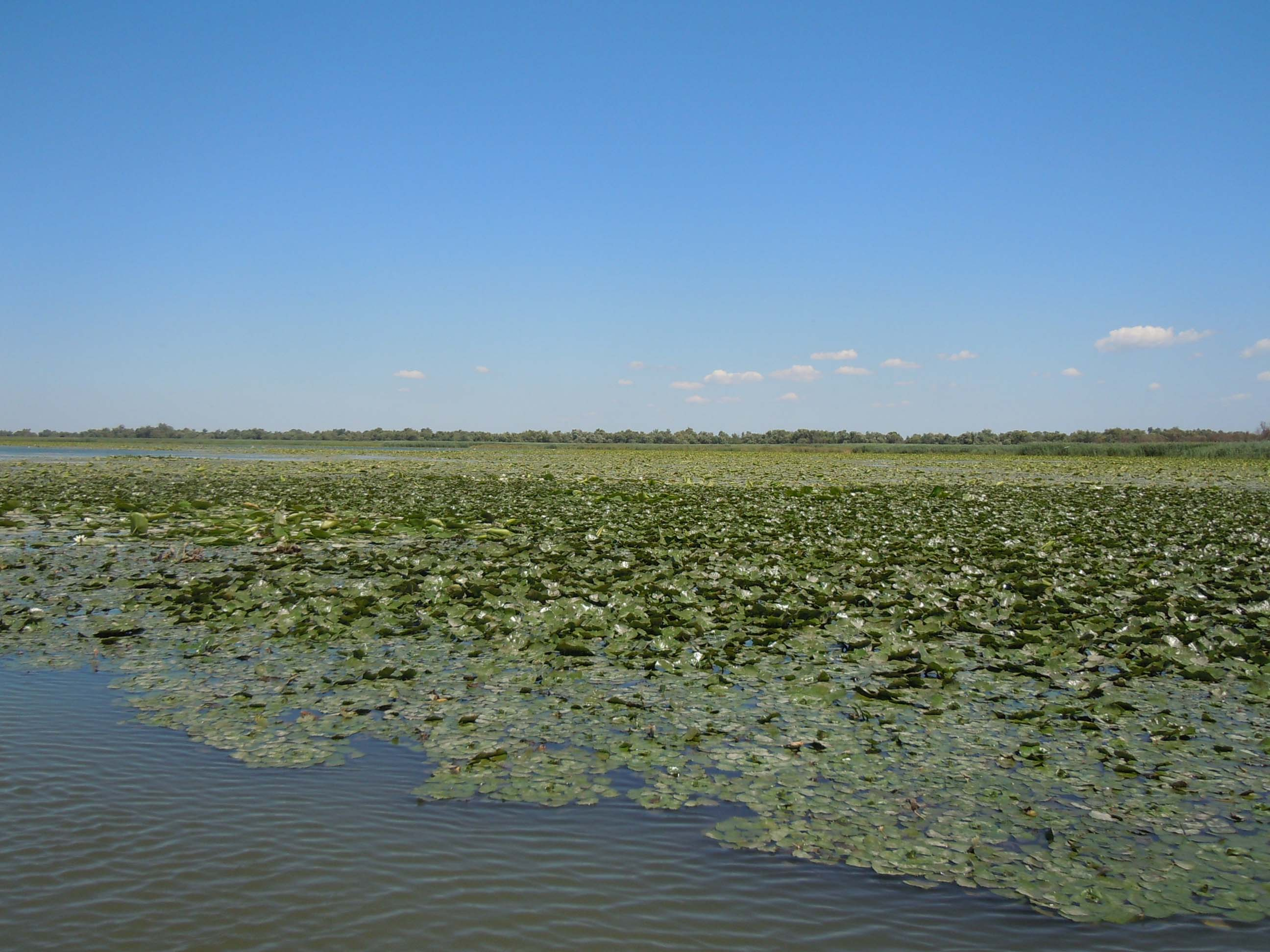 Lake Bile, Dniester River Delta, SW Ukraine